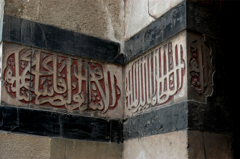 Qaytbay, sabil kuttab. Cairo, Egypt